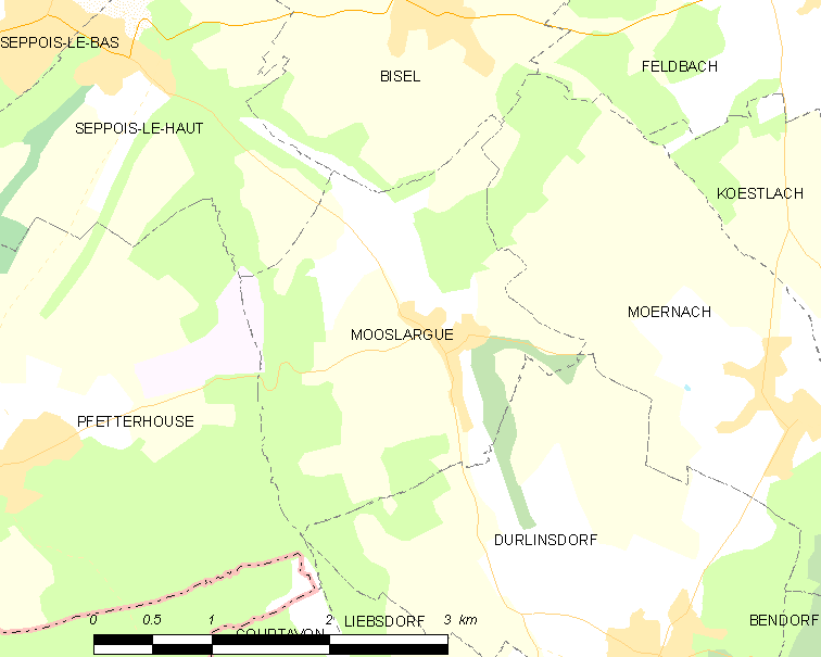 Map of French municipality